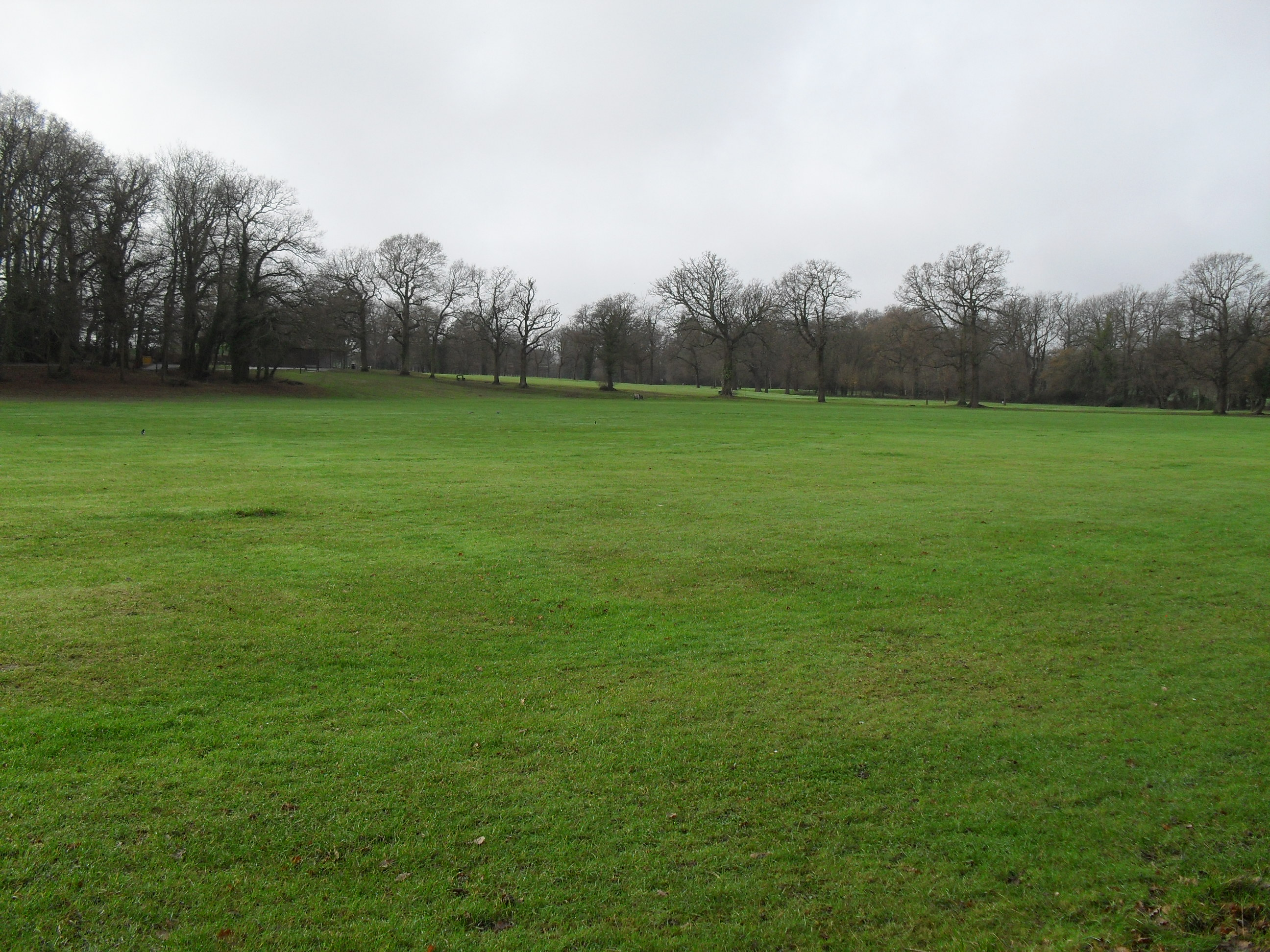 Goffs Park, Southgate, Crawley, West Sussex, England. A general view across the park, looking roughly southwestwards.